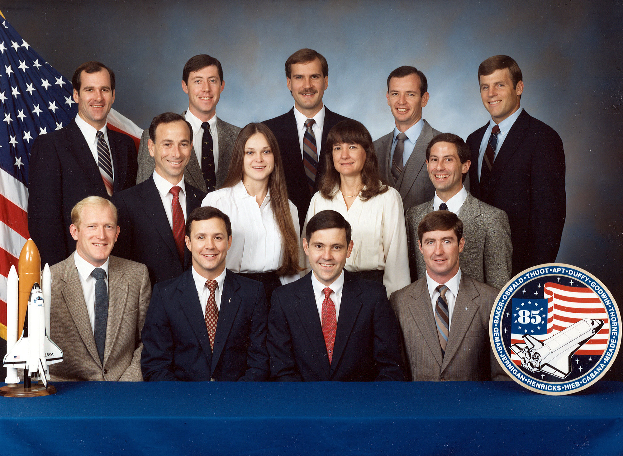 Announced 1985. Group of 13 astronauts. Includes current KSC director Bob Cabana